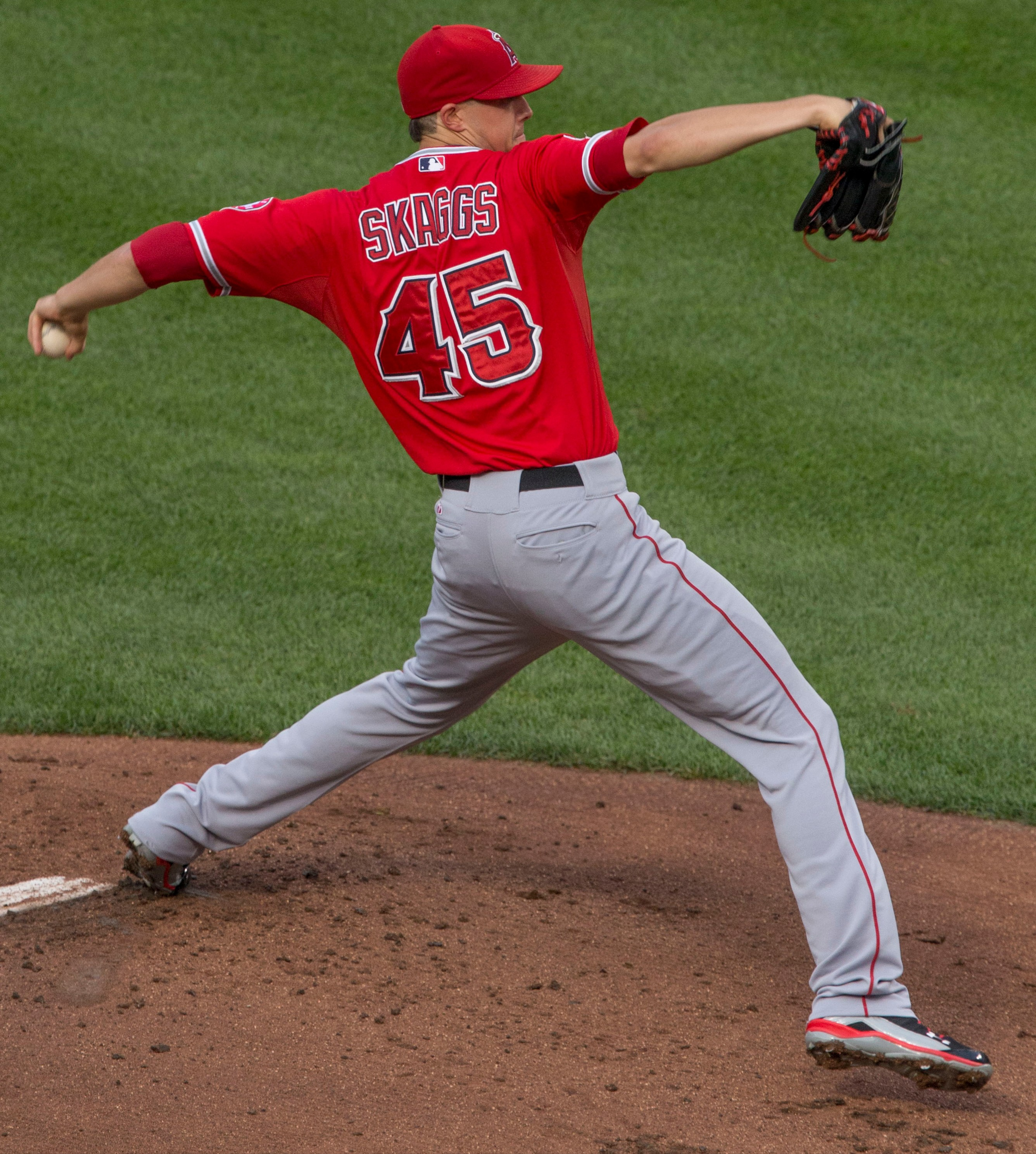 Tyler Skaggs